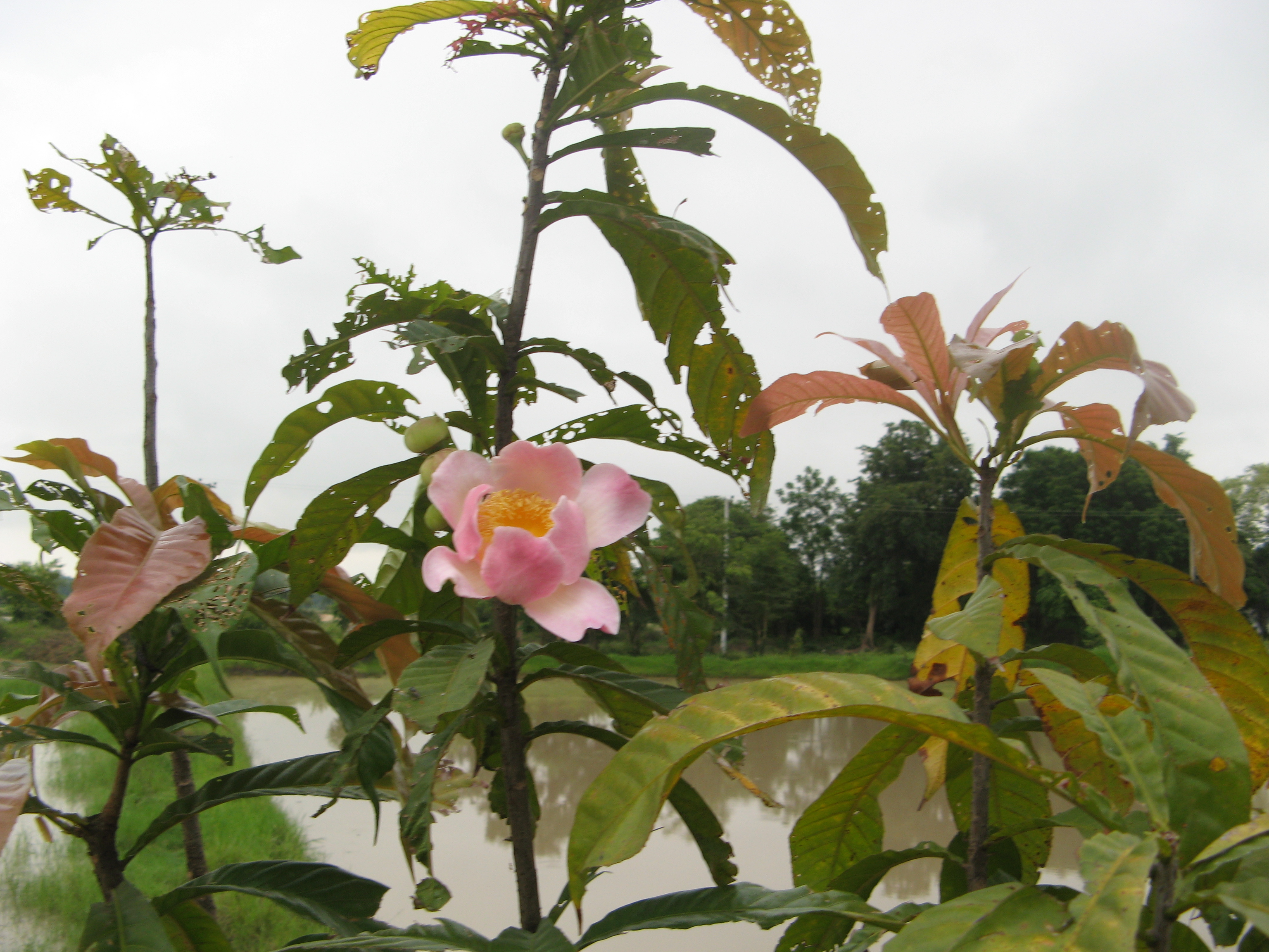 Gustavia superba